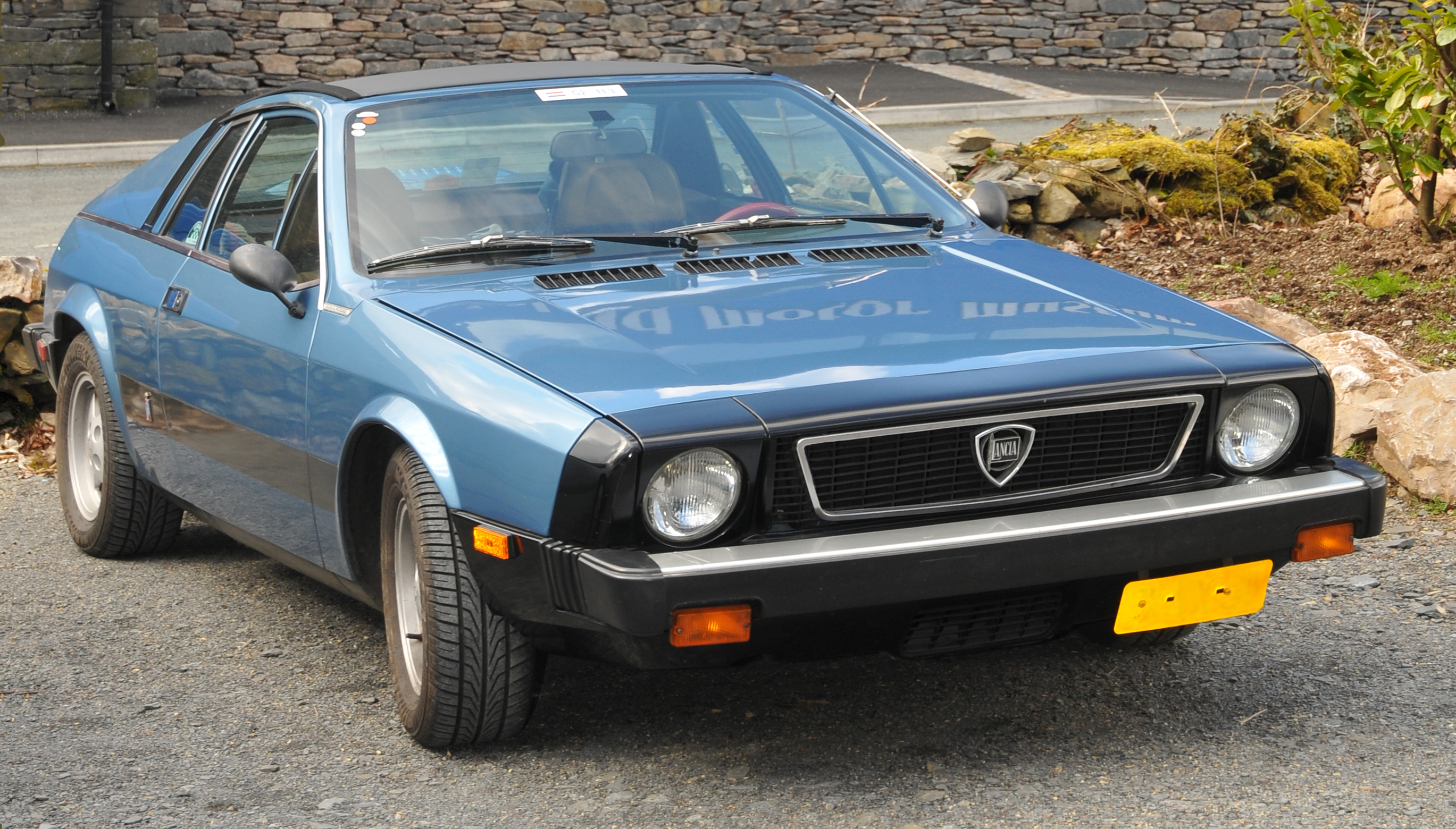 Lancia Scorpion (US market Beta Montecarlo, with sealed beam headlights) in the Lake District, March 2011